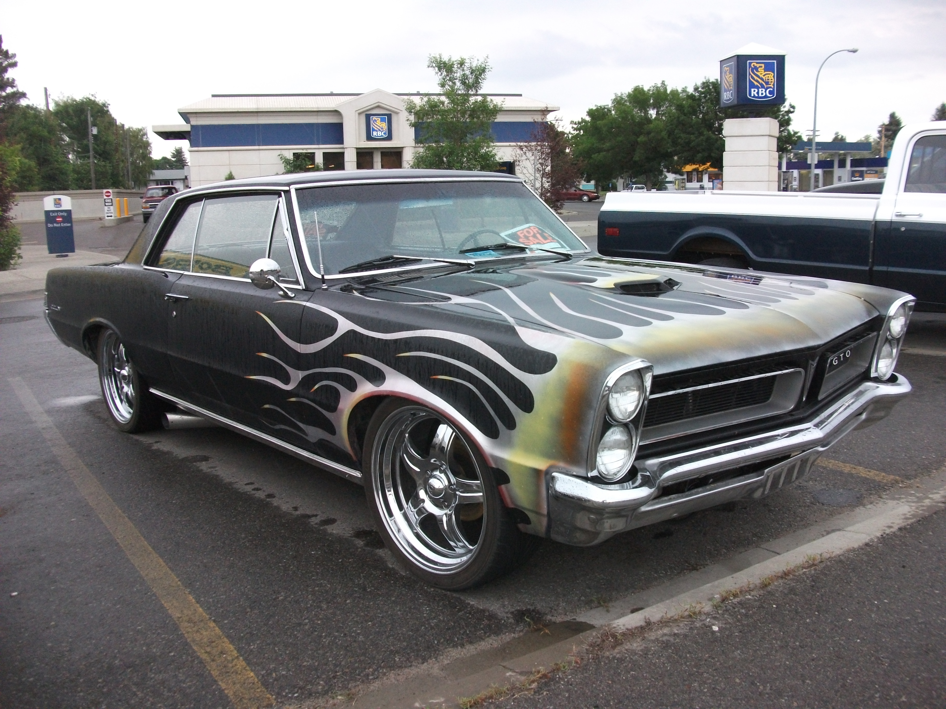 Flamed Pontiac GTO